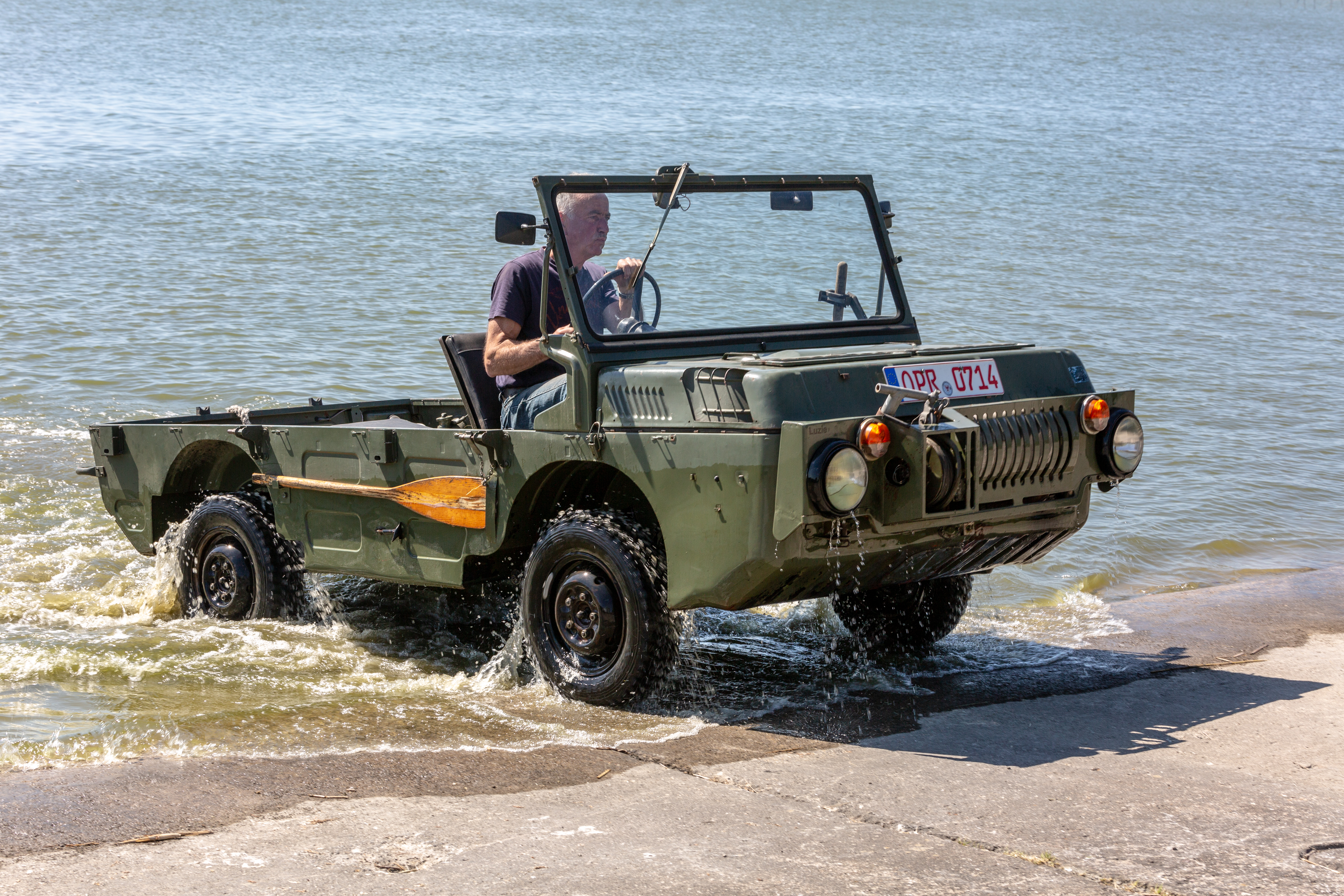 LuAZ-867 at Pfingsttreffen Pütnitz 2018